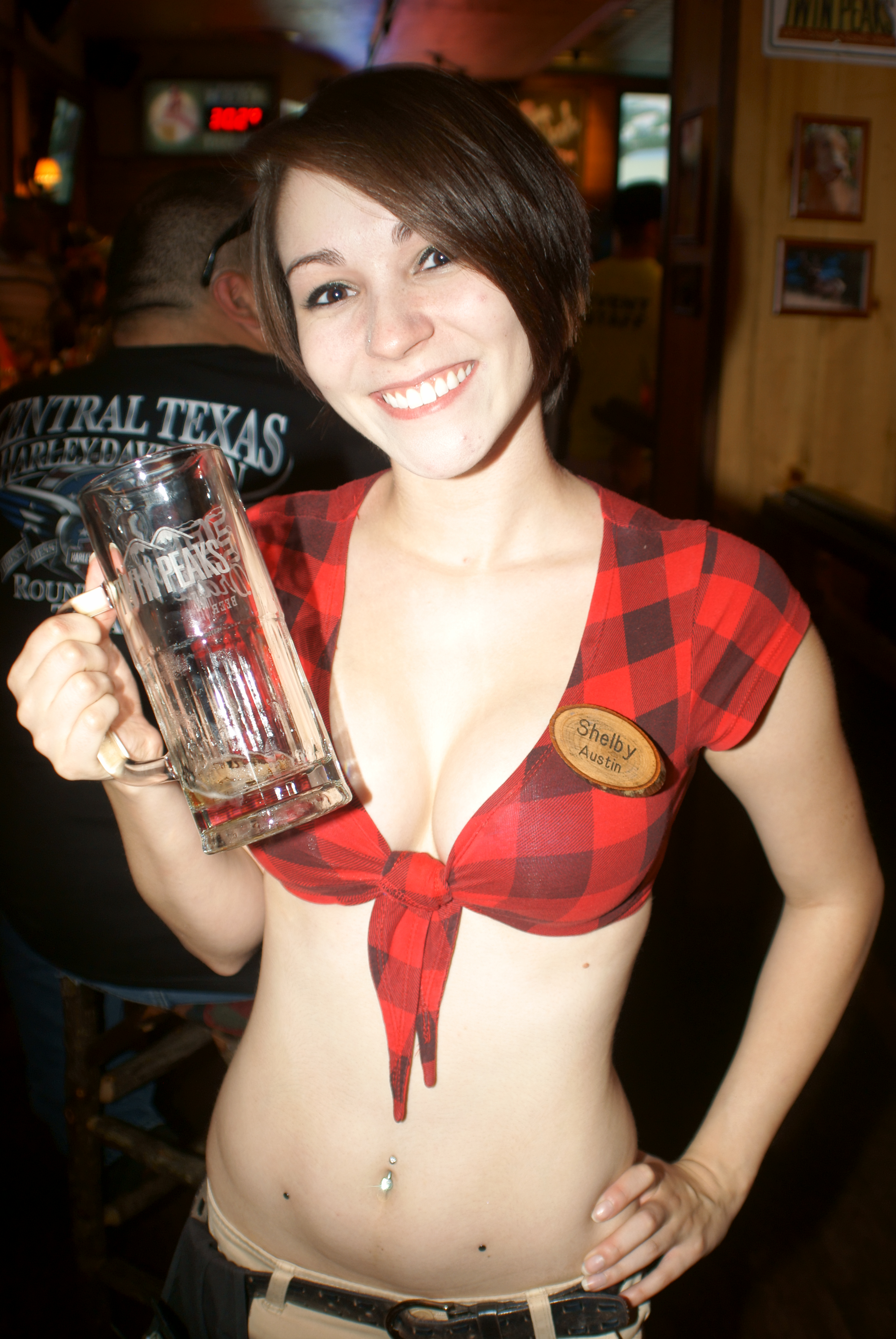 Twin Peaks Bikini Contest